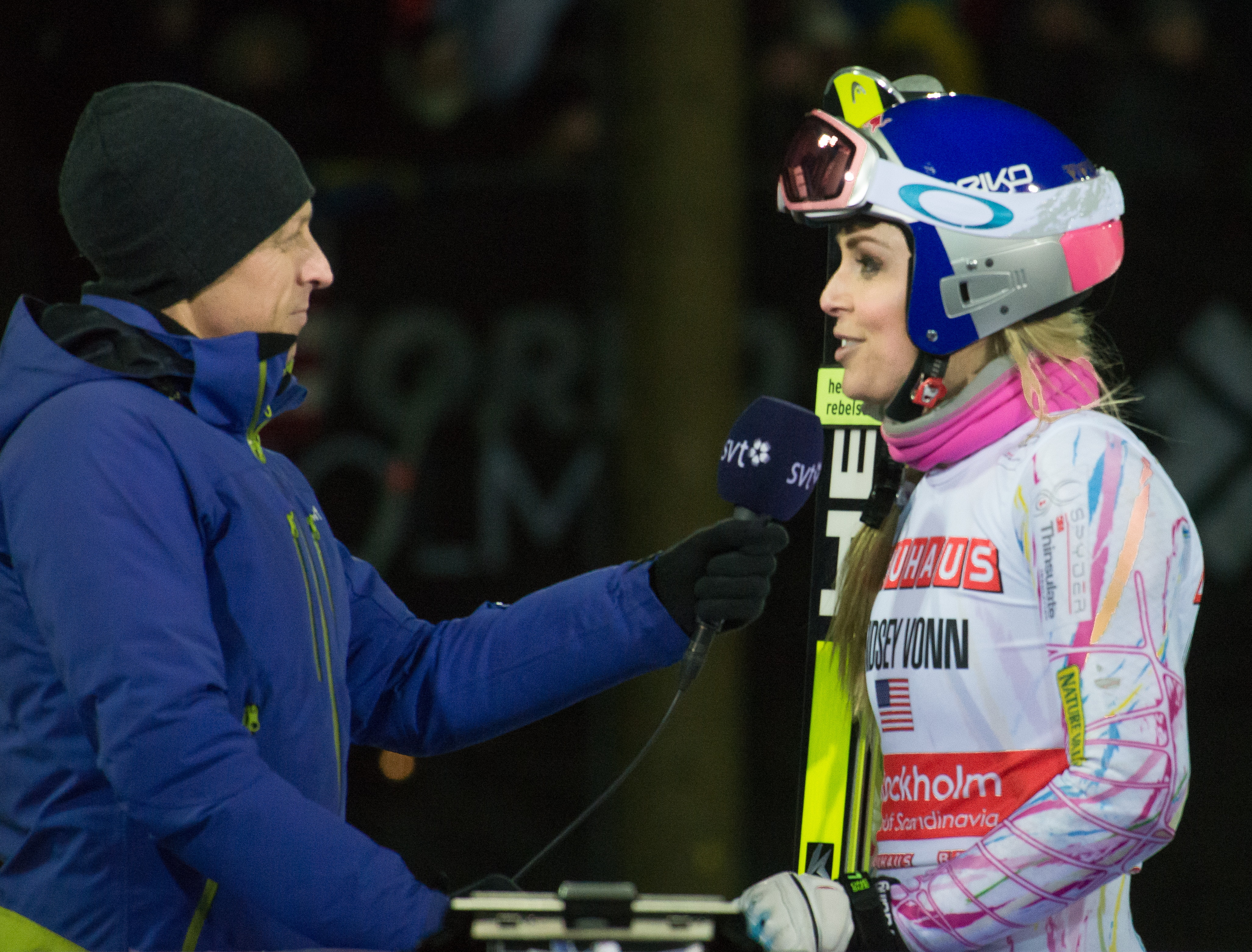 André Pops and Lindsey Vonn during the 2015–16 FIS Alpine Ski World Cup in Hammarbybacken in Stockholm on February 23, 2016.